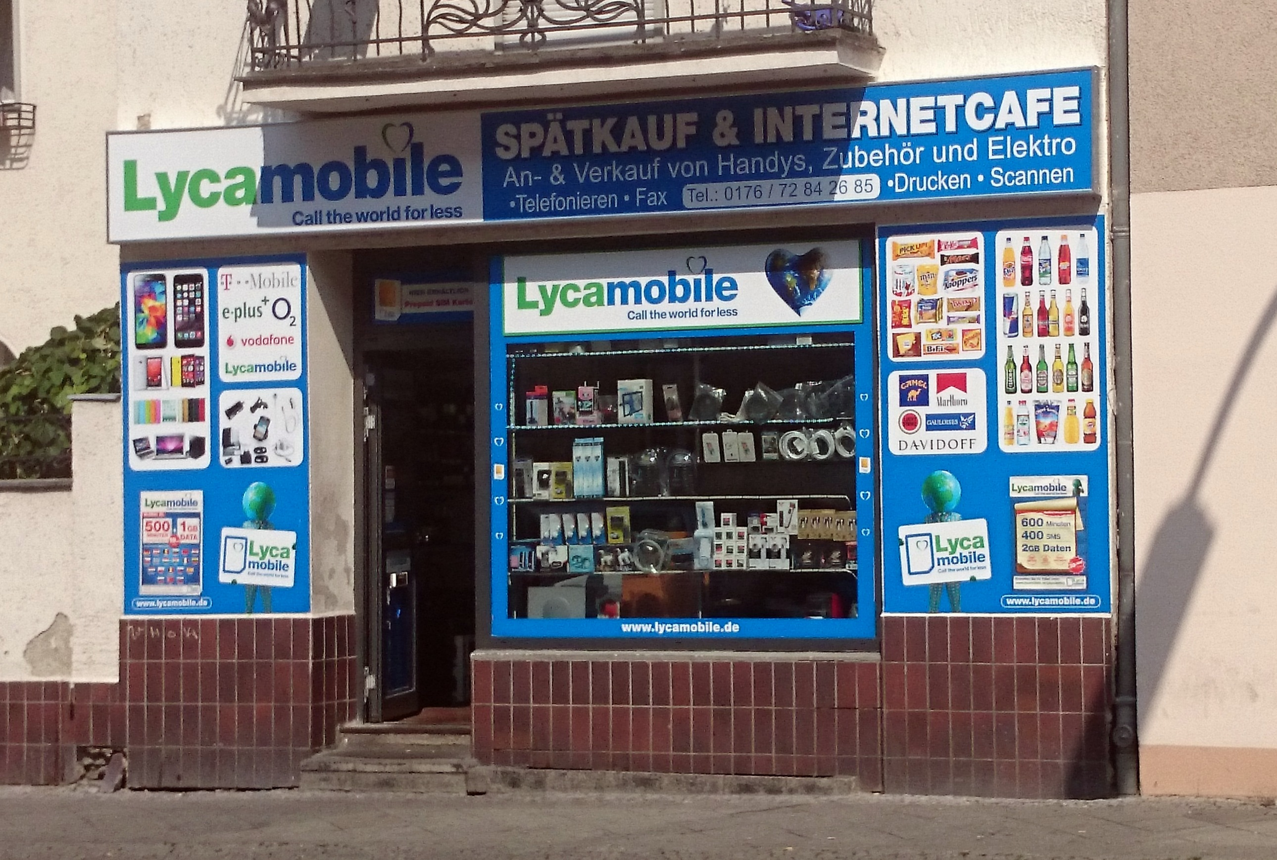 Berlin in late summer